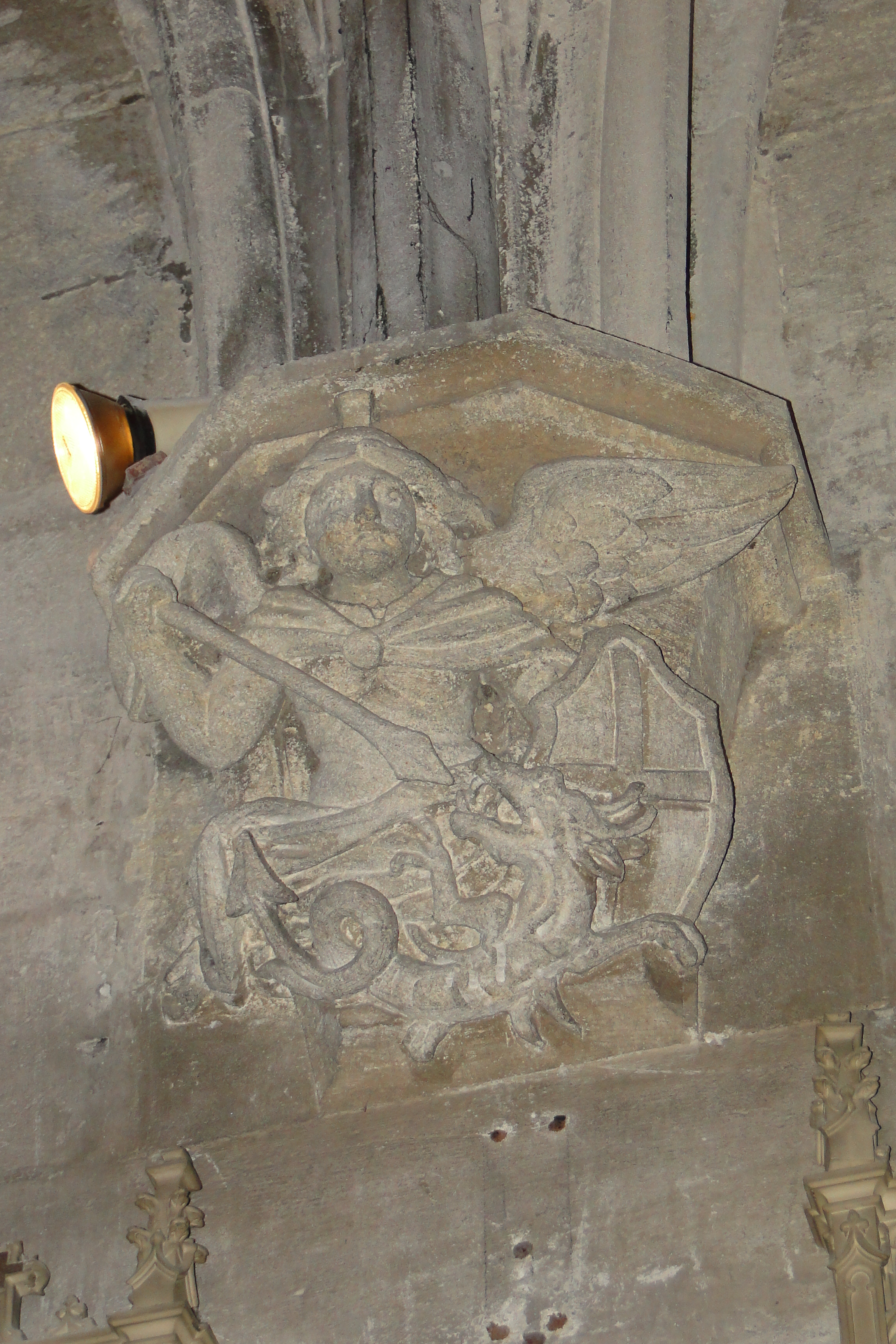 Bracket-capital in the church of St. Peter (Avignon, France)